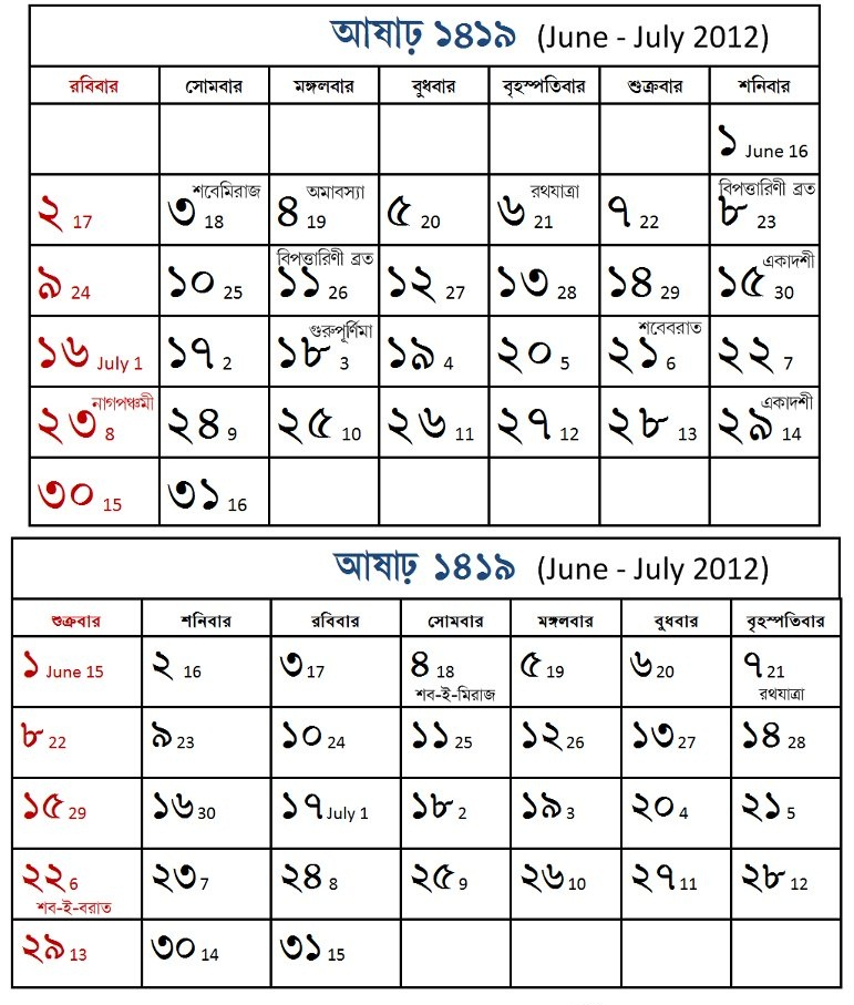 Bengali month of Ashar, 1419 showing difference between traditional sidereal and modern tropical Bengali calendars.